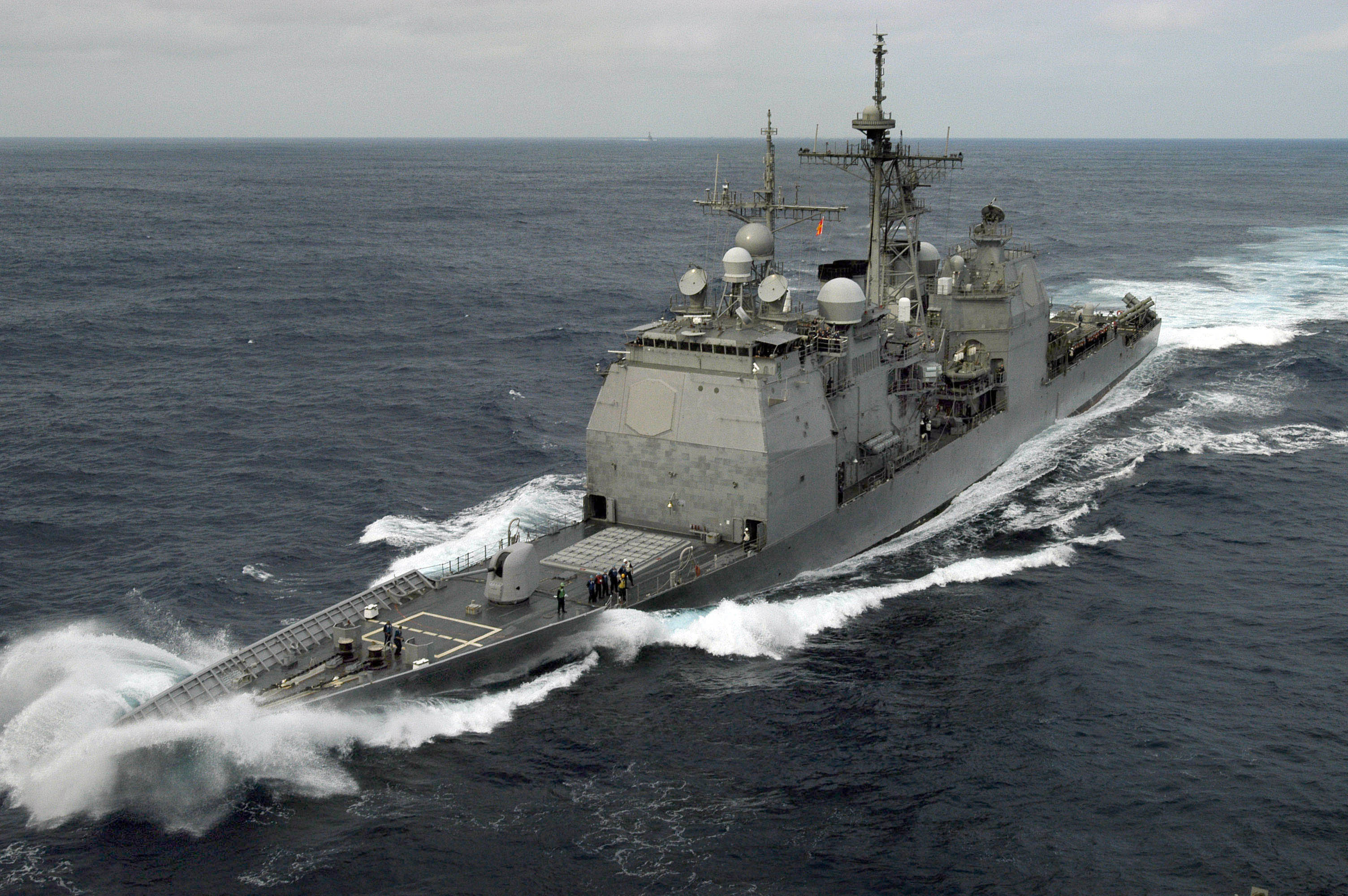 050825-N-0167B-014 Pacific Ocean (Aug. 25, 2005) – The guided missile cruiser USS Chancellorsville (CG 62) comes along side the conventionally powered aircraft carrier USS Kitty Hawk (CV 63) to conduct a replenishment at sea. Currently under way in the 7th Fleet area of responsibility (AOR), Kitty Hawk demonstrates power projection and sea control, as the U.S. Navy's only permanently forward-deployed aircraft carrier. U.S. Navy photo by Photographer's Mate Airman Dylan Butler (RELEASED)